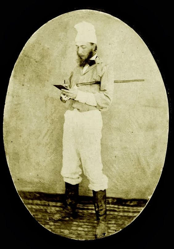 Maximilian, Emperor of Mexico (formerly Archduke of Austria)